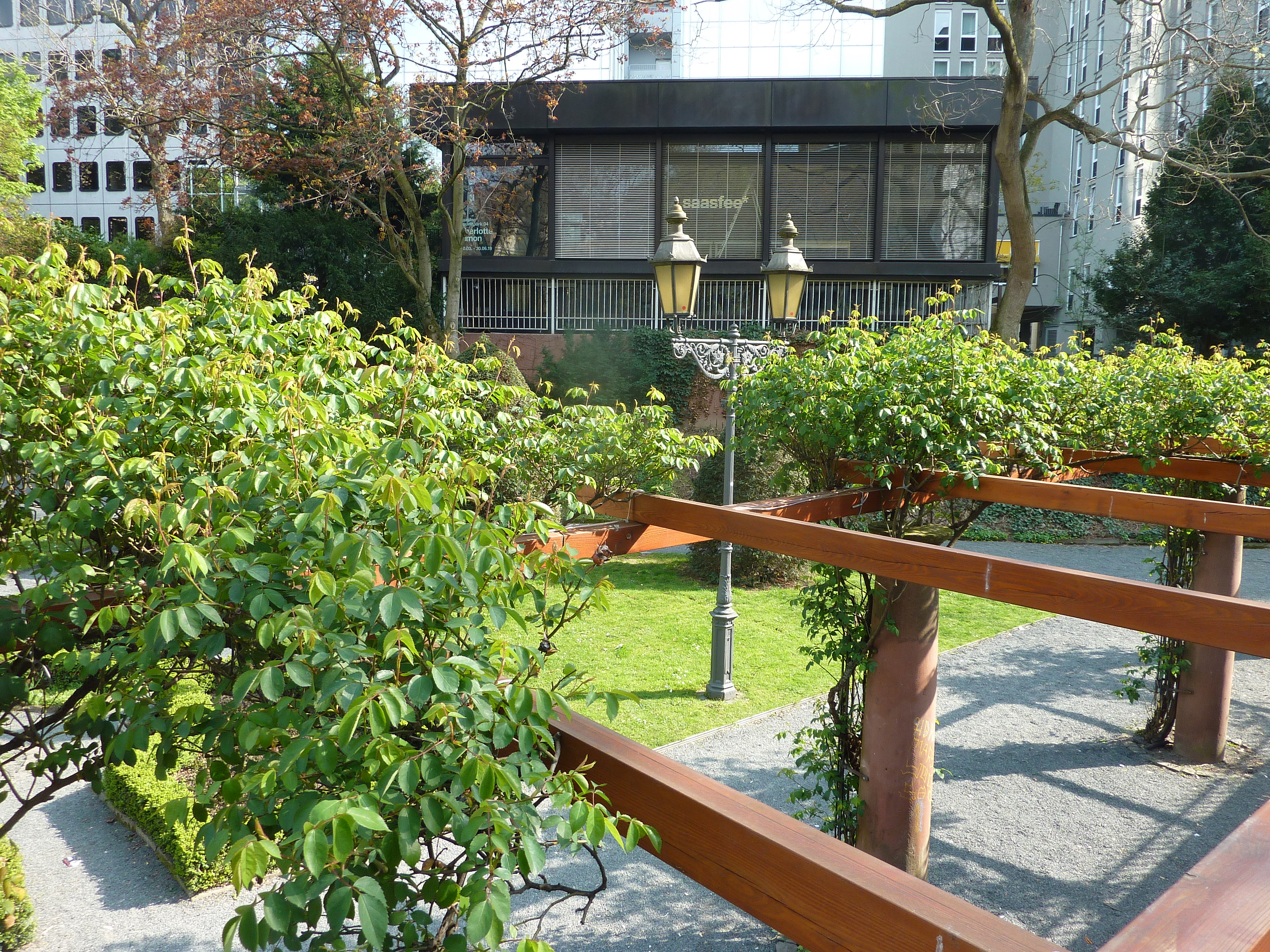 saasfee*soundpark is an art project and permanent sound installation in the city of Frankfurt-am-Main, Germany. The project, located in a public park and residing in a neighbouring pavillon, presents contemporary works of international sound artists and musicians. Shown here is a view of one of the pergolas in the soundpark; in the background the saasfee*pavillon